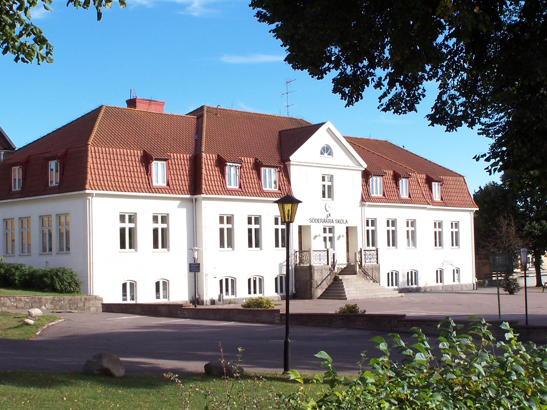 Söderåkra school, Söderåkra, Municipality of Torsås, Sweden